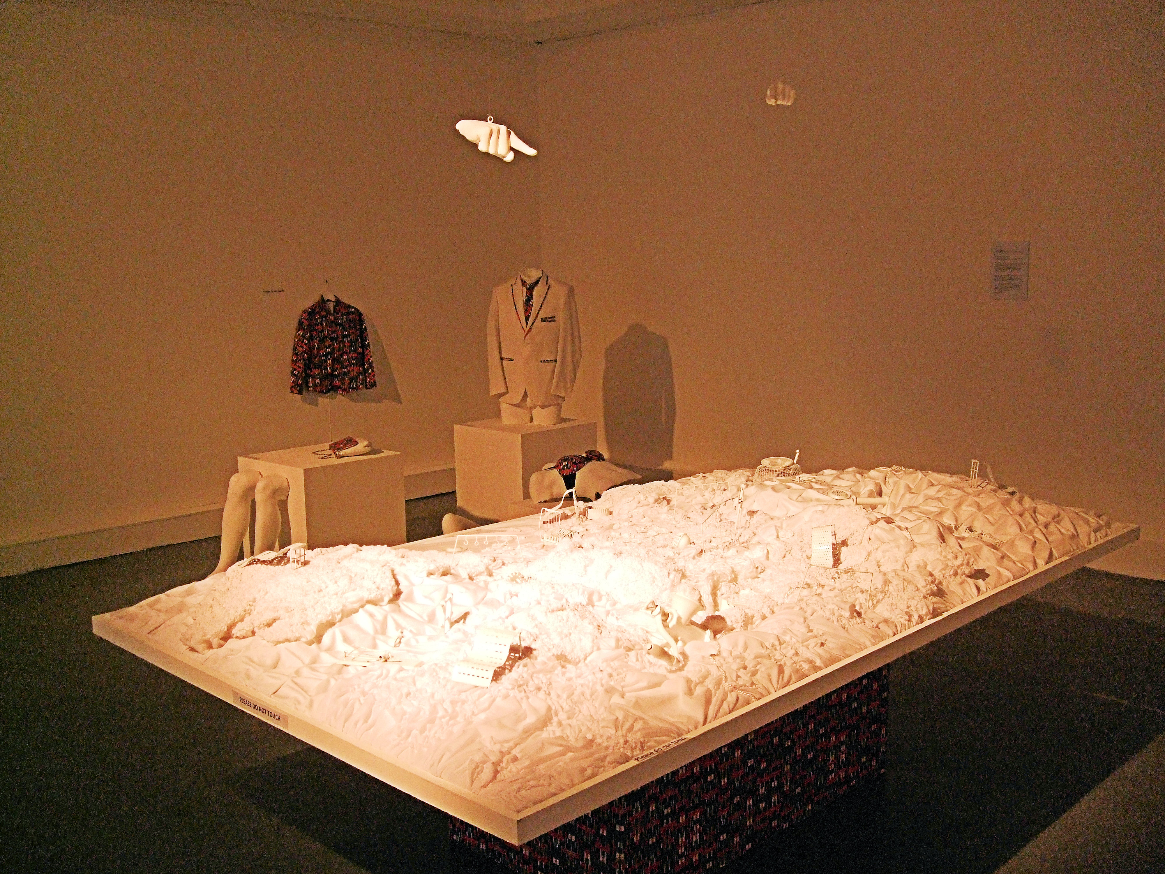 Art inside the Watermans' Arts Centre, Brentford - London.